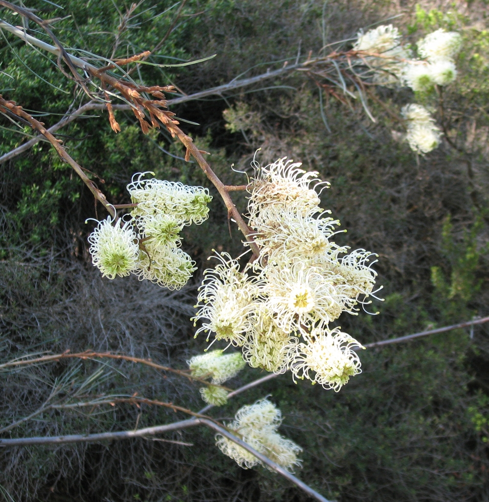 Grevillea leucopteris (cultivated, labelled), Maranoa Gardens, Balwyn, Victoria, Australia